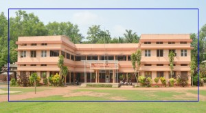 This is a primary school run by Sri Sathya Sai Loka Seva trust